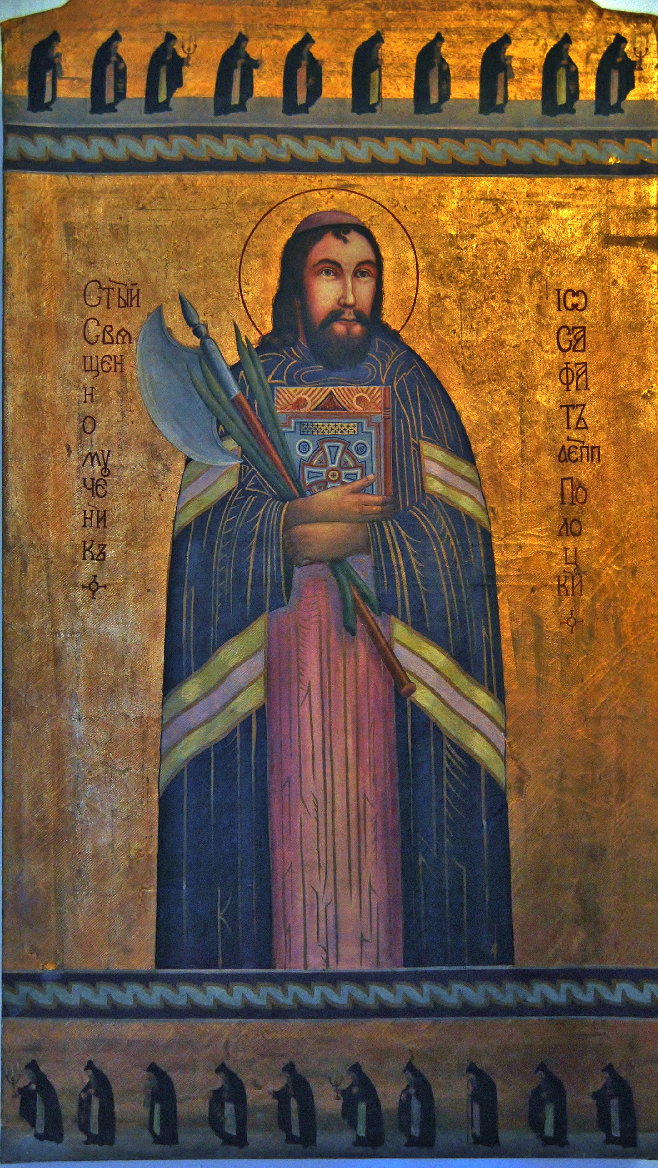 Icon of St. Martyr Josaphat Kuntsevych, Archbishop of Polotsk (UGCC) from the exposition of museum in Zbarazh Castle. XIX Ct. Canvas, oil, gilding.